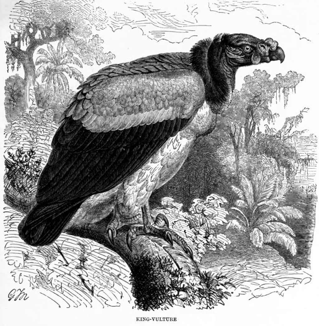 King Vulture Sarcoramphus papa